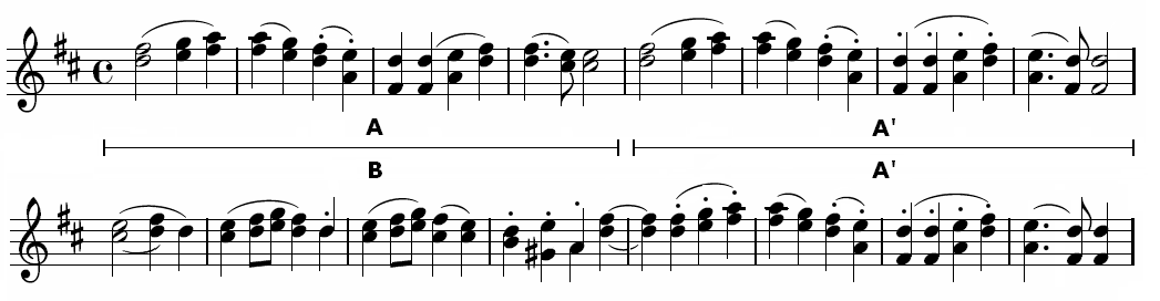 Ode to Joy, by Beethoven (1824).